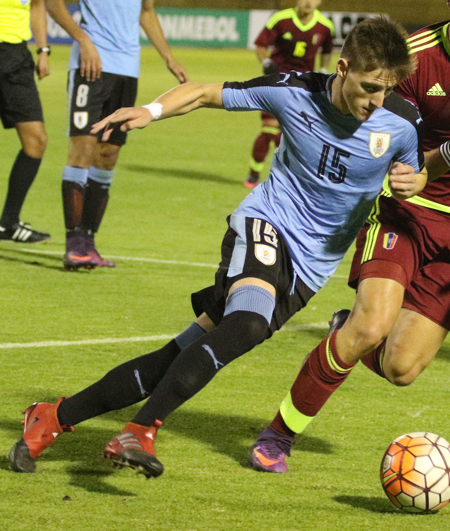 URUGUAY vs VENEZUELA SUB 20